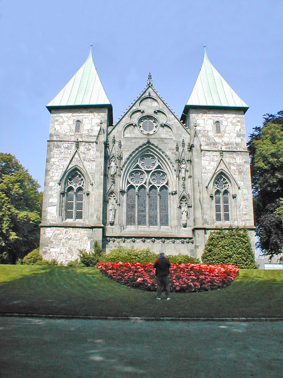 Stavanger cathedral.